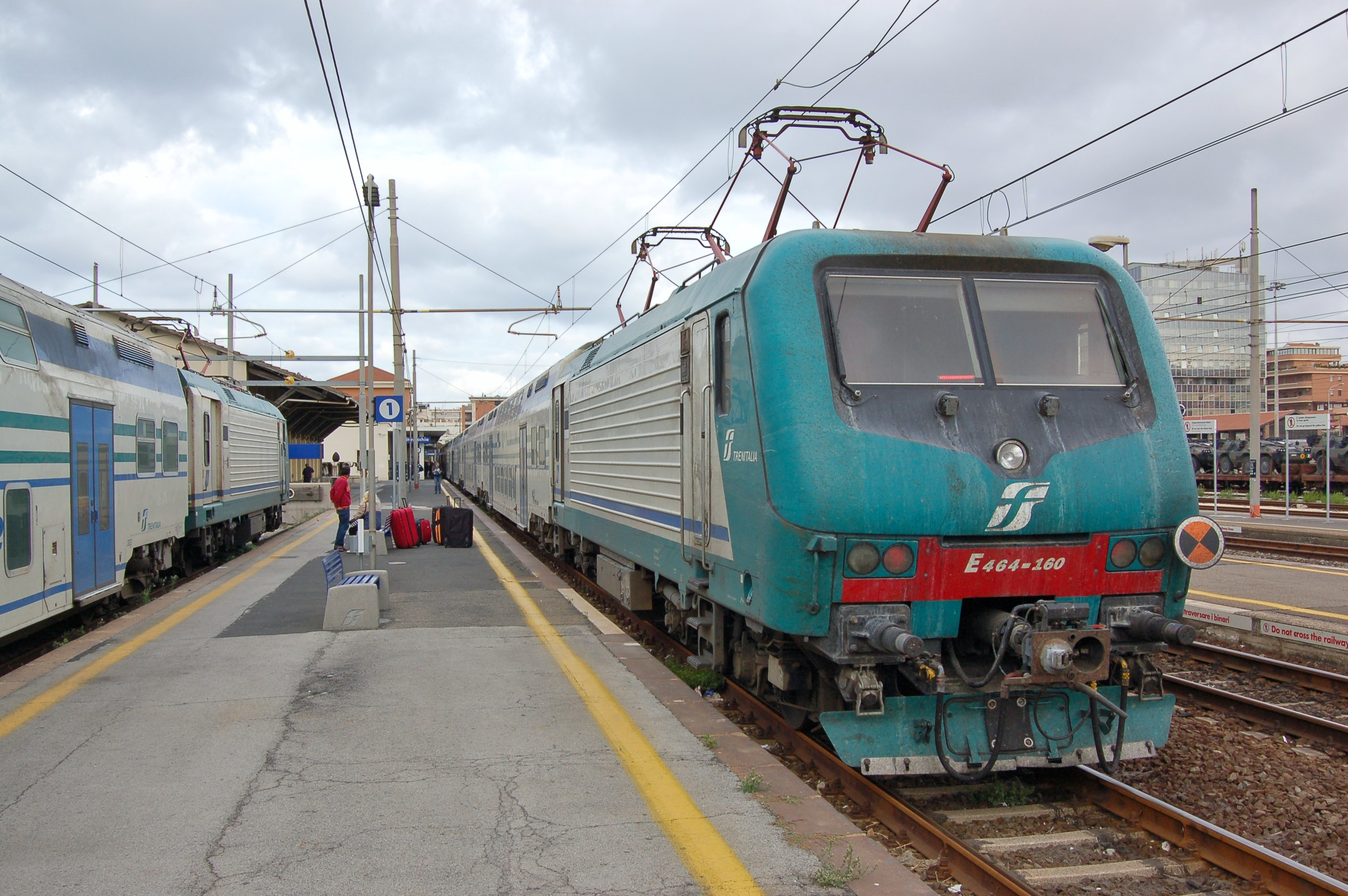 Trenitalia electric locomotive E464.160 with a commuter train at Civitavecchia, Italy. Stabled in the bay platform at left is sister locomotive E464.212 with another commuter train.